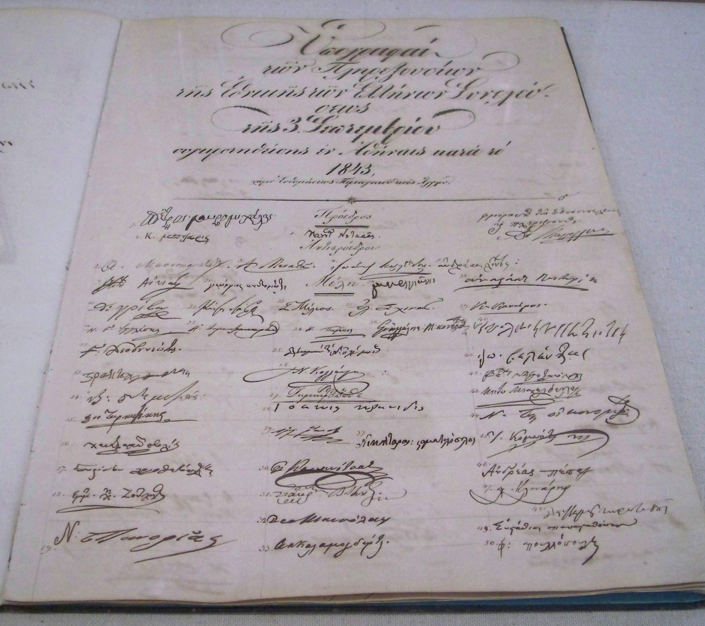 The signatures of the participants in the greek National Assembly, which resulted from the September 3rd 1843 revolution that demanded a constitution from then-king Otto. National Historical Museum, Athens, Greece.